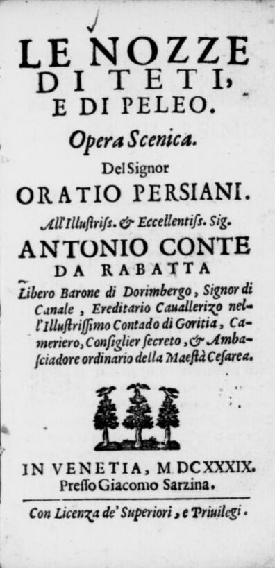 Title page of Orazio Persiani's opera libretto of Le Nozze di Teti e di Peleo for Francesco Cavalli, premiered at the Teatro San Cassiano in 1639. Book printed by 'Giacomo Sarzina, In Venetia, 1639'